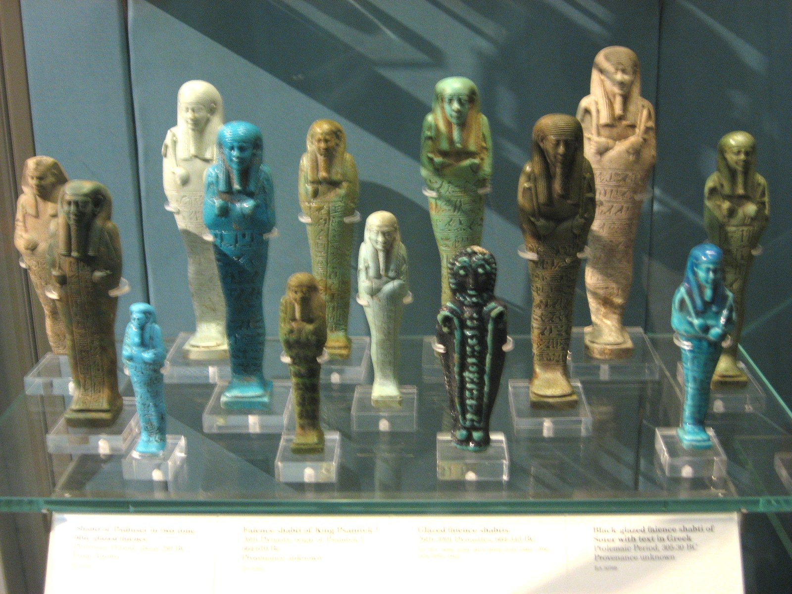 Photograph taken by me January 5 2008